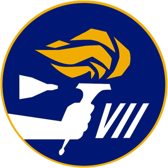 Design for the emblem of the Gemini VII spaceflight. At left of hand-held torch is a Gemini spacecraft. Roman numeral indicates the seventh flight in the Gemini series. Prime crew men for the mission are astronauts Frank Borman, command pilot, and James A. Lovell Jr., pilot. The NASA insignia design for Gemini flights is reserved for use by the astronauts and for other official use as the NASA Administrator may authorize. Public availability has been approved only in the form of illustrations by the various news media. When and if there is any change in this policy, which we do not anticipate, it will be publicly announced.